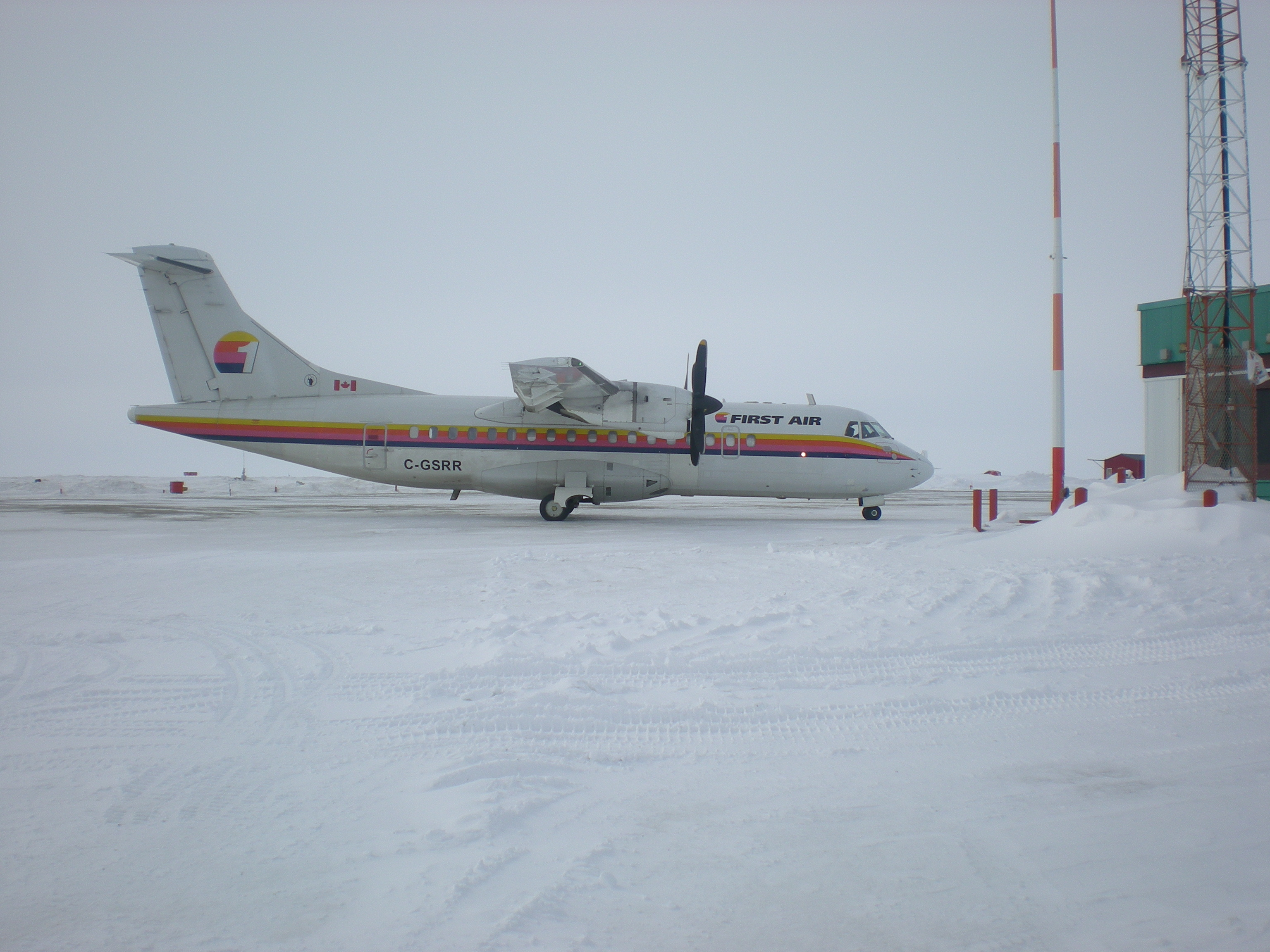 First Air AT42 (300 series) GSRR on the ground at Cambridge Bay Airport